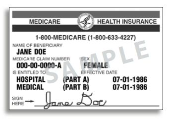 Centers for Medicare and Medicaid Services - Medicare & You 2010, official government handbook.